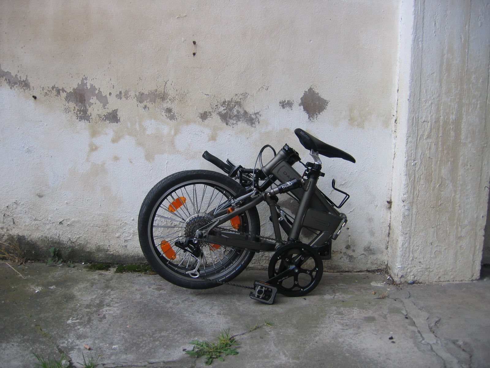 Dahon Jetstream P8 (2009). 20" folding bicycle.